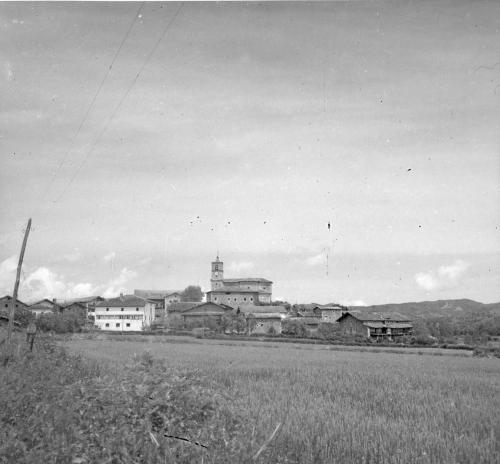 Lizaso view